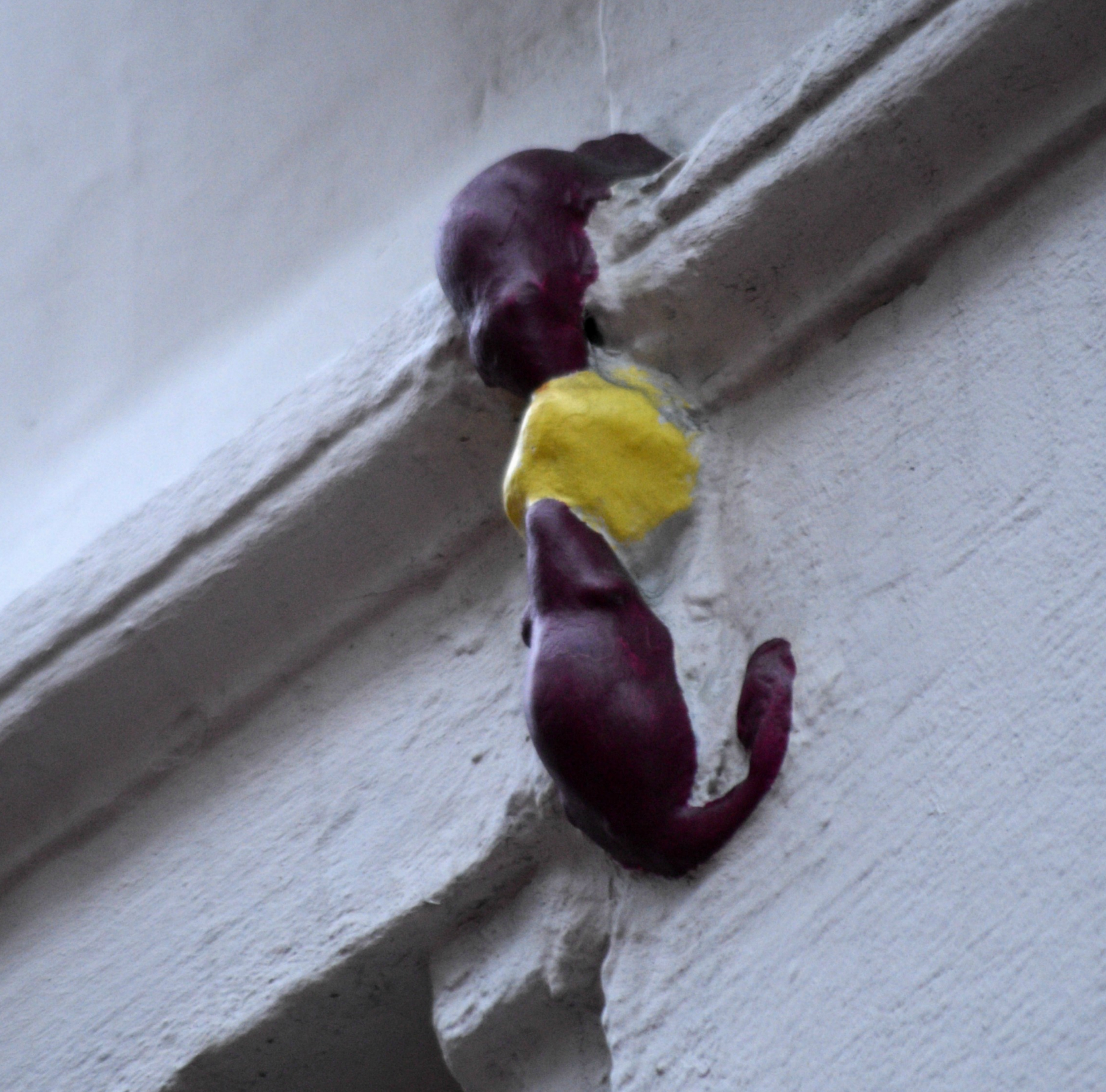 This "sculpture" is situated on a wall above a shop in Philpot Lane in the City of London. It is in remembrance of two workers that lost their lives while building the nearby Monument to the fire of London. Back in 1670 something - Two workers were perched on the Monument which is the world's tallest stone column and were taking a lunch break, when they got into a fight,apparently because one of the guys lunch had been partially eaten and they both ended up falling to their deaths... It is thought that mice were responsible for the theft and this tribute was made to remember the workers. ( and the mice i guess )